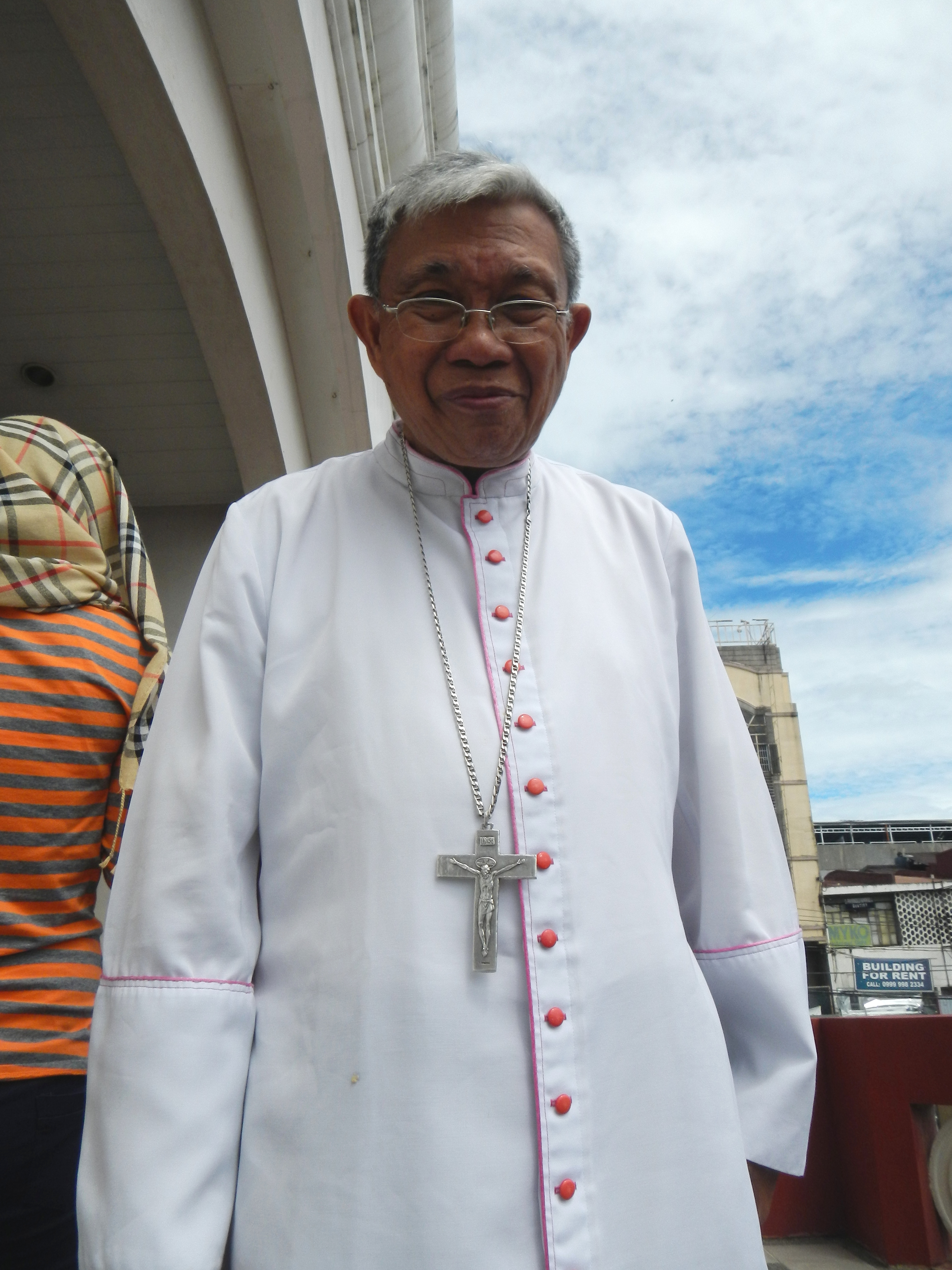 Antonio Rialubin Tobias (b. June 13, 1941 Bishop's Residence, Good Shepherd Shrine, Regalado Ave., Fairview Park, 1118 Quezon City on the NEWLY Painted, Restoreed, Renovated (- for the October 27 Installation of Florentino Lavarias, D.D., in the) Metropolitan Cathedral of San Fernando in Pampanga - Florentino Lavarias. Office of the Bishop of Novaliches, Cathedral of the Good Shepherd, Regalado Avenue, Fairview Park 1, 1118 Quezon City, Philippines Novaliches Cathedral Diocese of Novaliches.